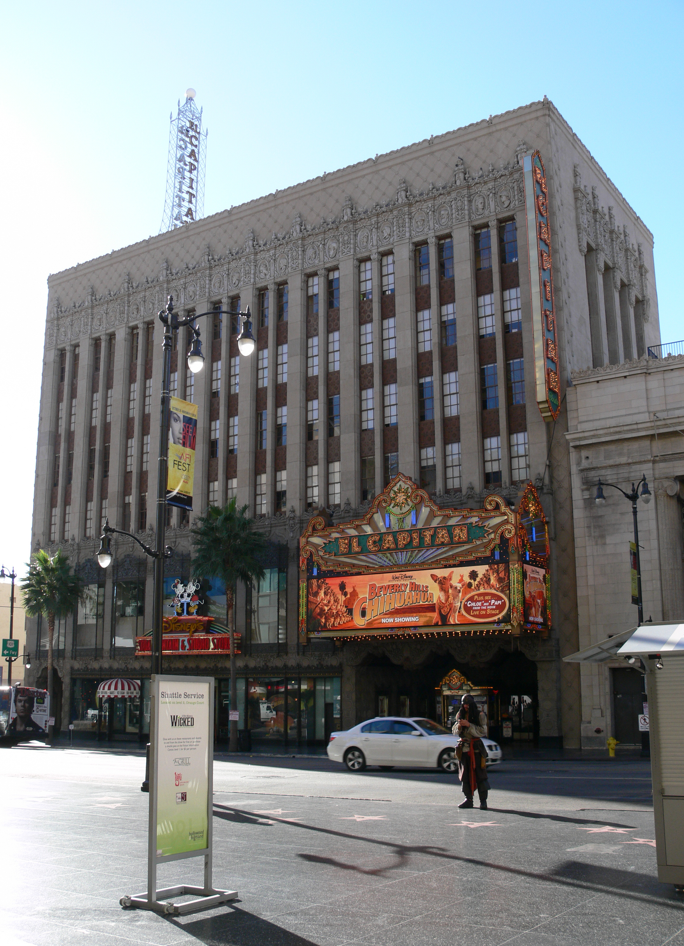 El Capitan Theater, Hollywood Boulevard, Los Angeles, California